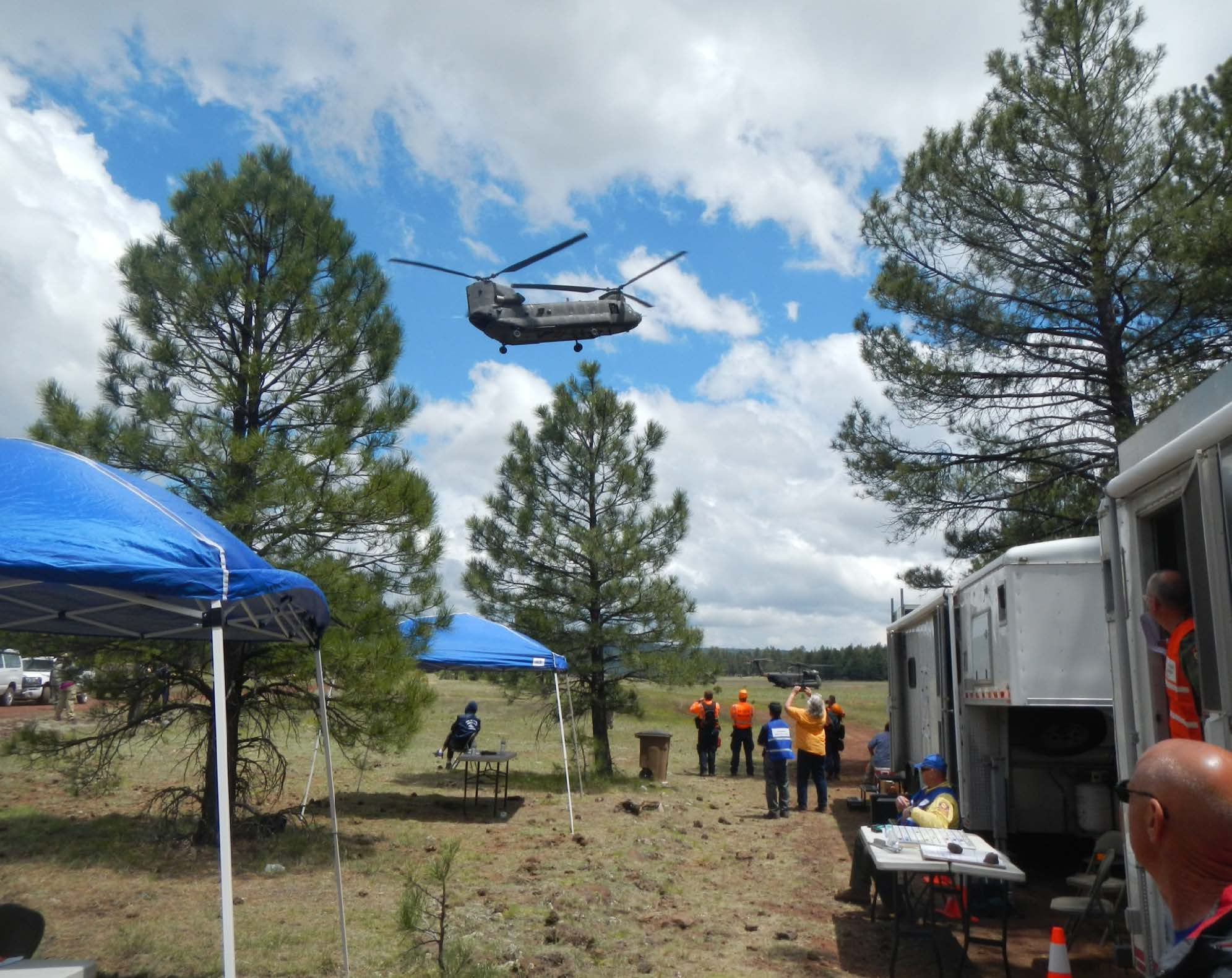 Civil Air Patrol members play an important role in ensuring the effectiveness of massive training exercises like Angel Thunder in Arizona. This year, members joined with personnel from not only the Air Force and other federal and state agencies but also from 25 other nations to fill a variety of roles, including communications, search and rescue, lost person simulation and aerial imaging.